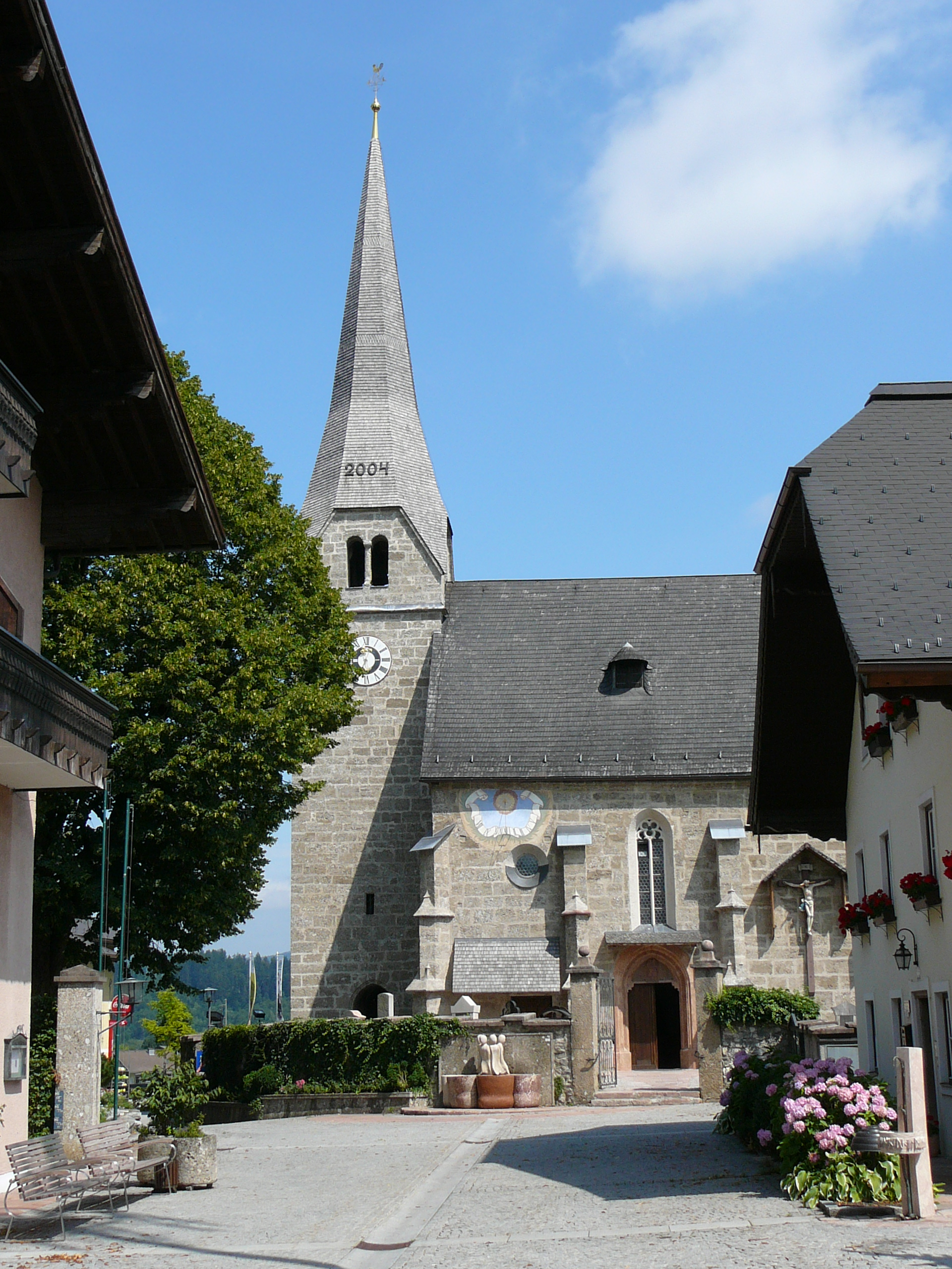 Parish church of Bad Vigaun, Austria